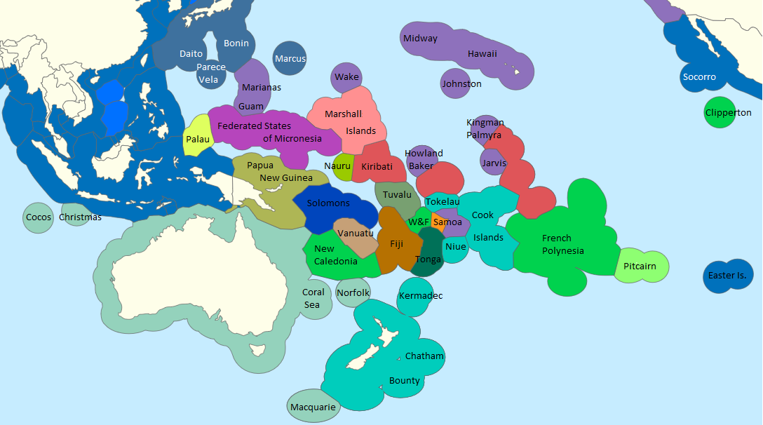 Exclusive economic zones of Oceania and neighboring areas